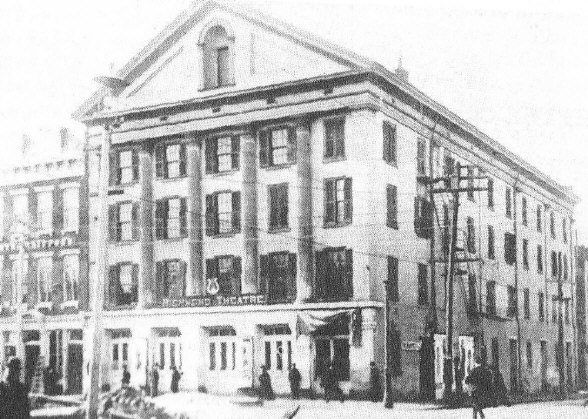 The Richmond Theatre, Richmond, Virginia, at the time John Wilkes Booth made his first acting appearance there.